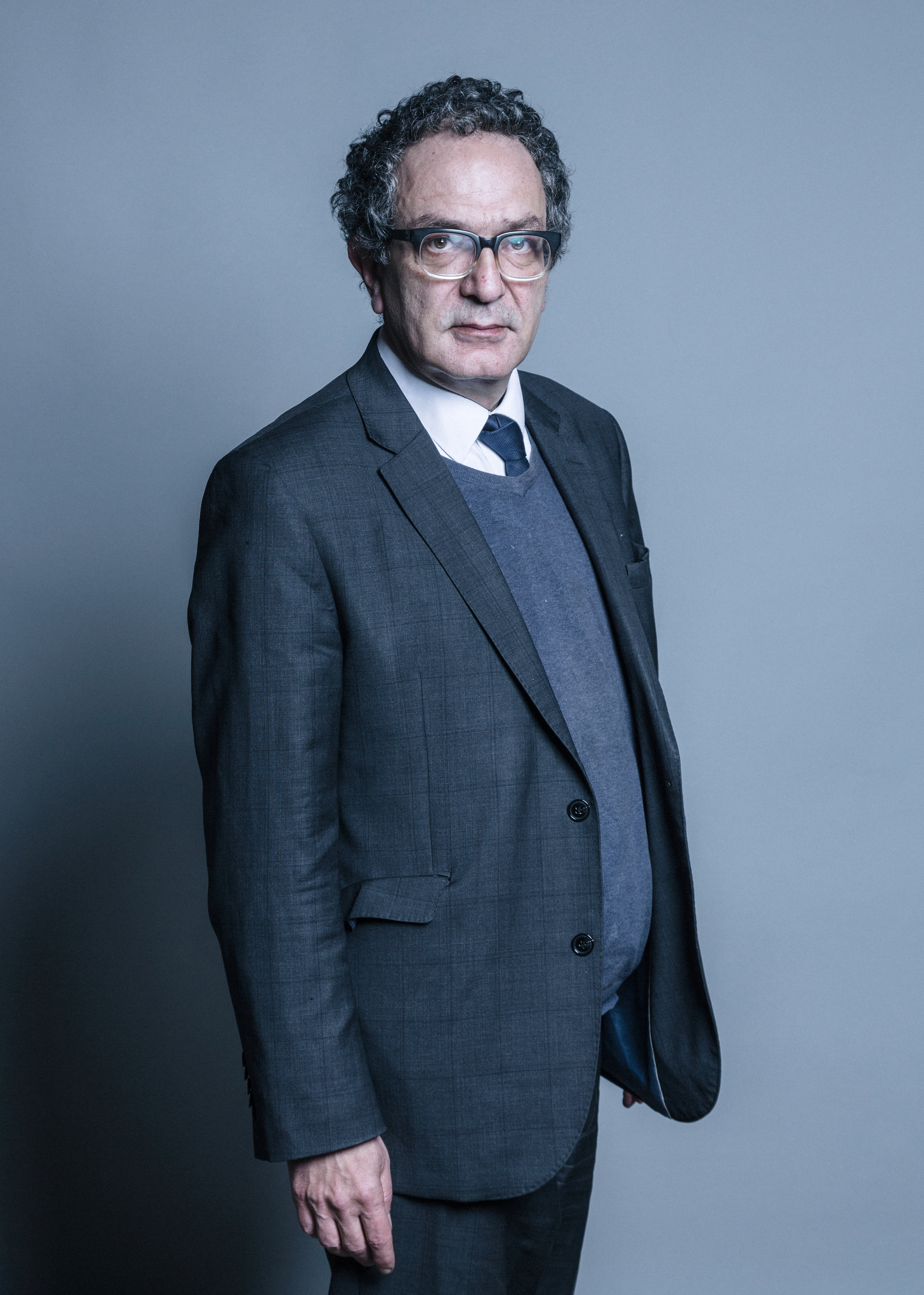 Official portrait of Lord Glasman